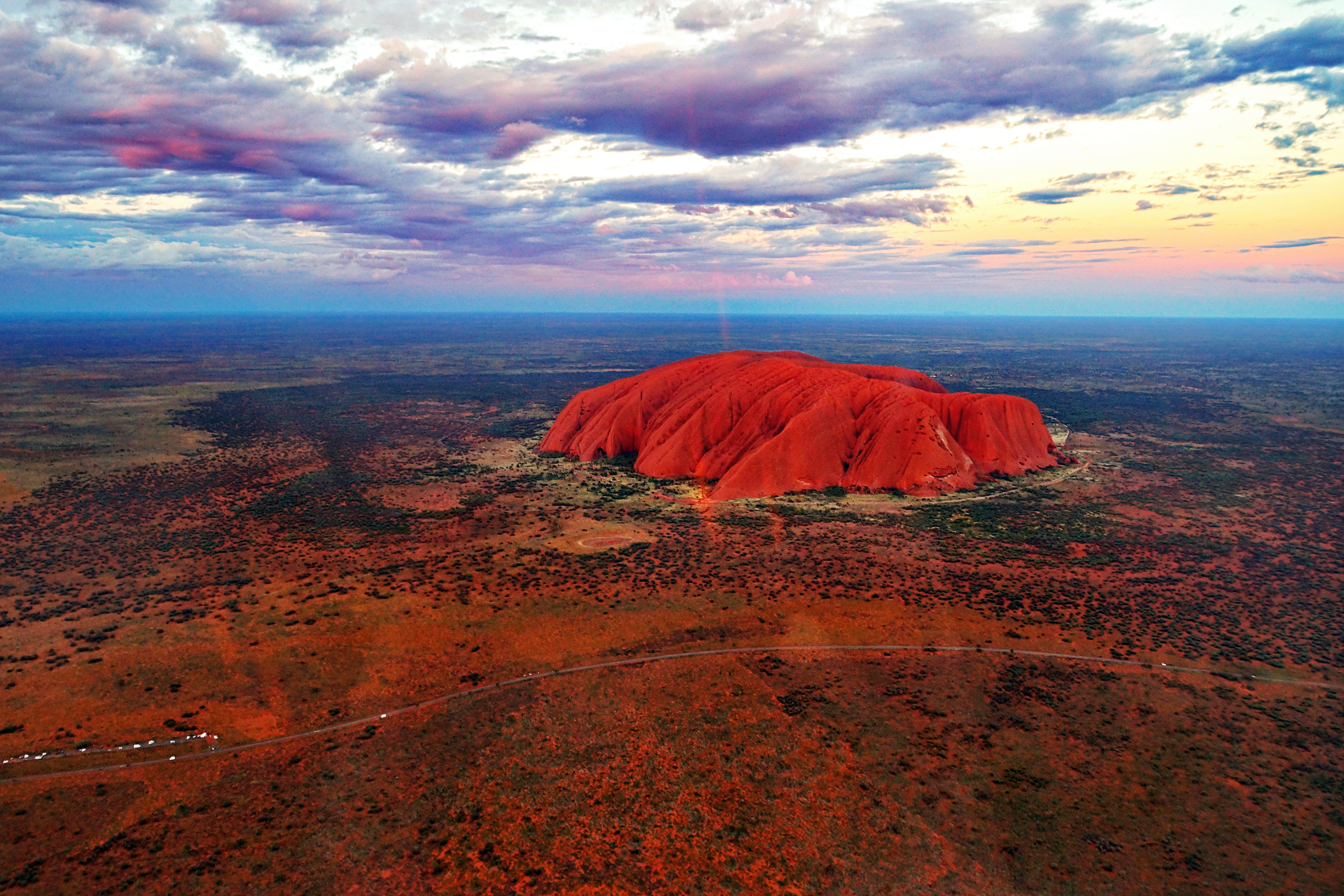 Aerial view of Uluru at sunset. Shows the magnitude of Uluru, and the colour of the rock at sunset.The sunset viewing car park can be seen in the lower left corner of the image.